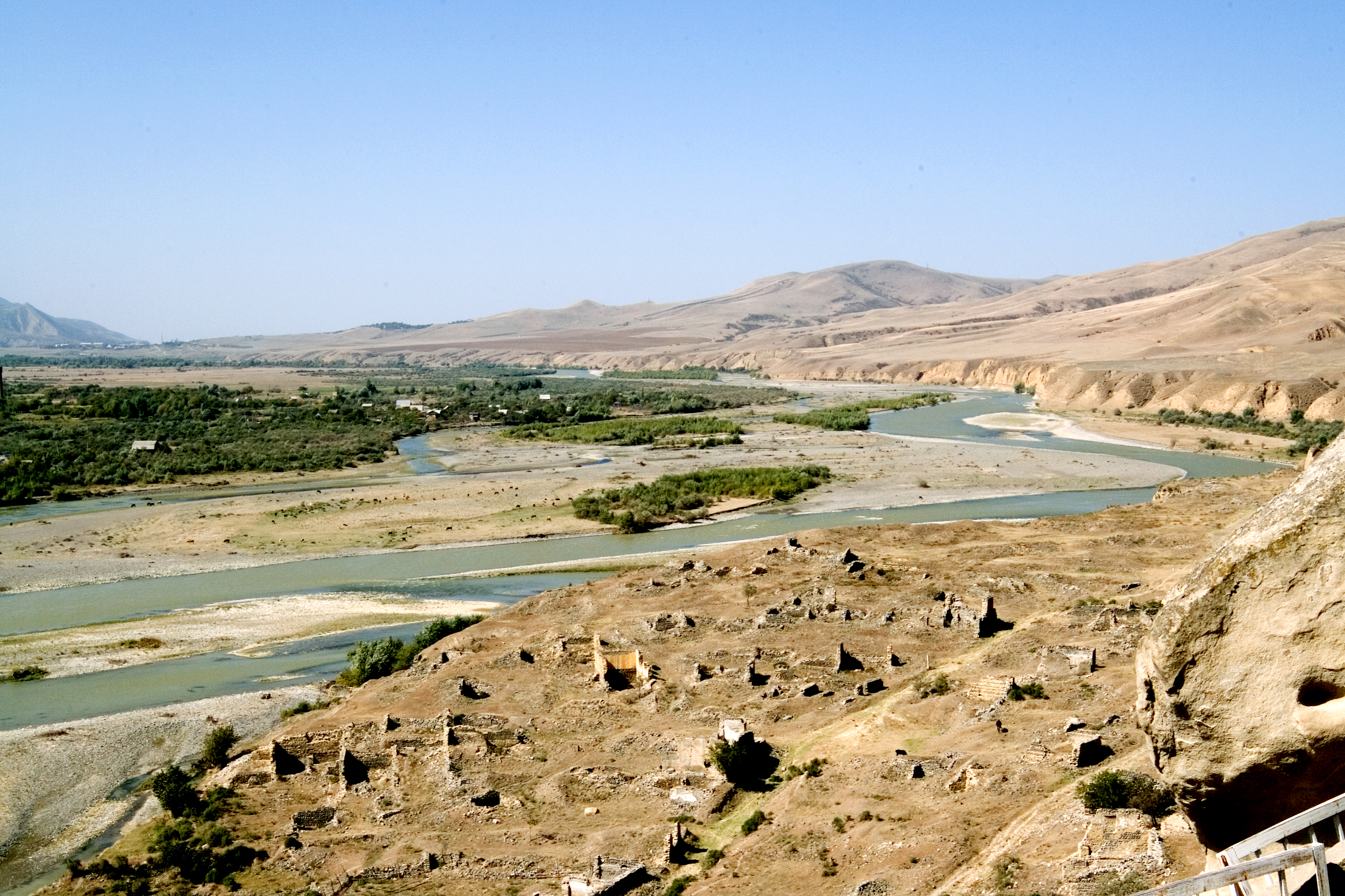 River Mtkvari (Kura) and late sattlement by Uplistsikhe